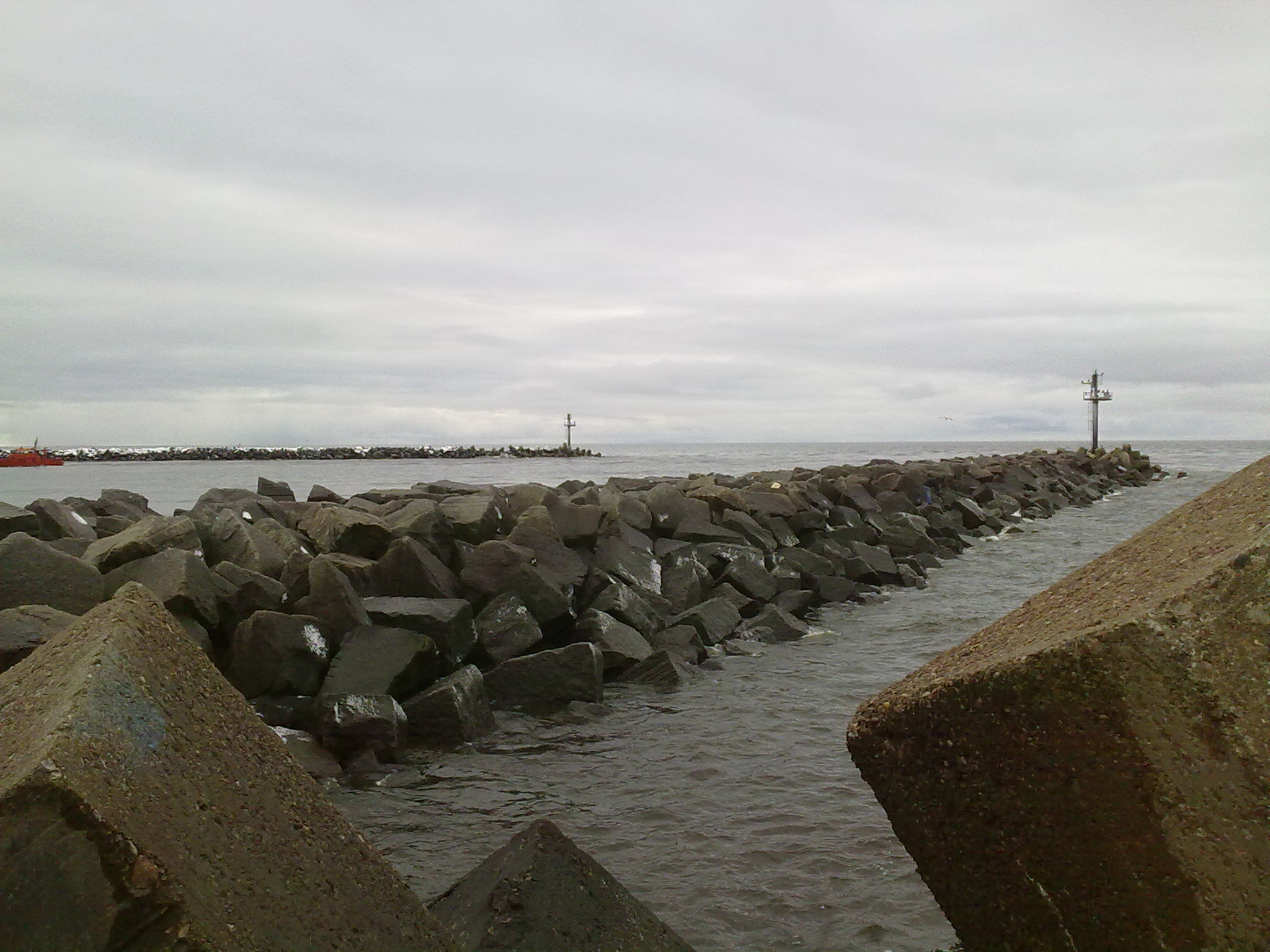 Gate of the port of Klaipėda.